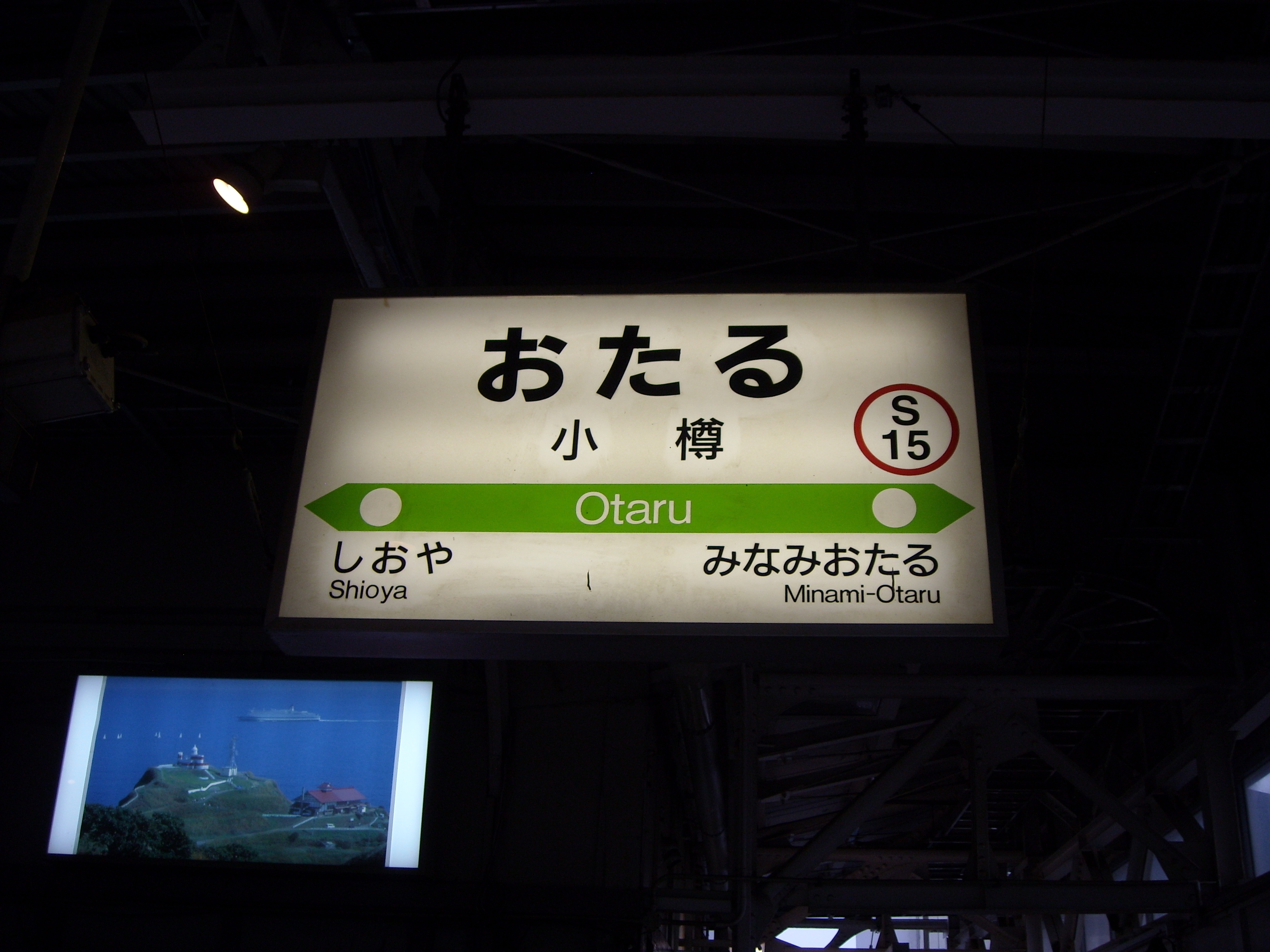 Otaru Station sign